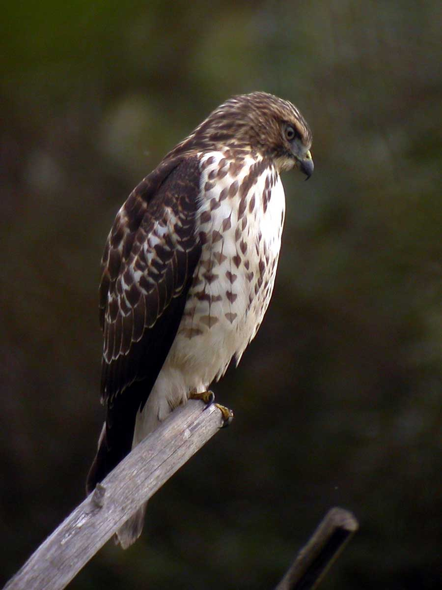 Broad-winged Hawk (Buteo platypterus). Taken several years ago at Bolinas Lagoon, along the Bob Stewart Trail. Rare to see these birds stopping to hunt in Marin County, although they are seen every year from Hawk Hill (Marin Headlands) as they migrate south.